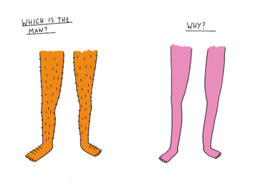 gender legs